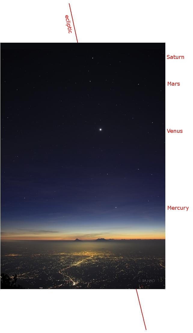 Four planets at sunset, looking west over Surakarta, Java, Indonesia.